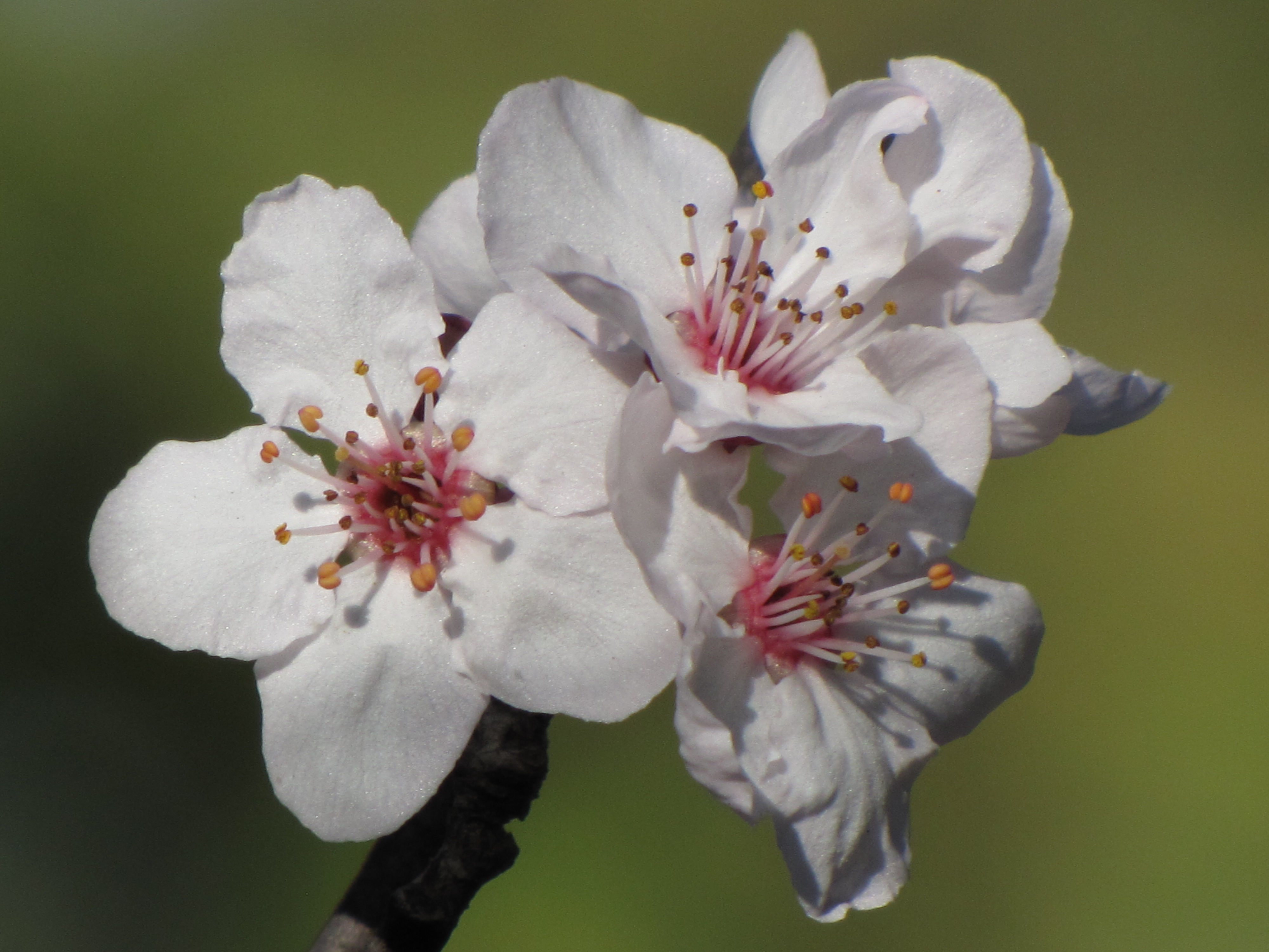 Purpleleaf Sand Cherry flowers.